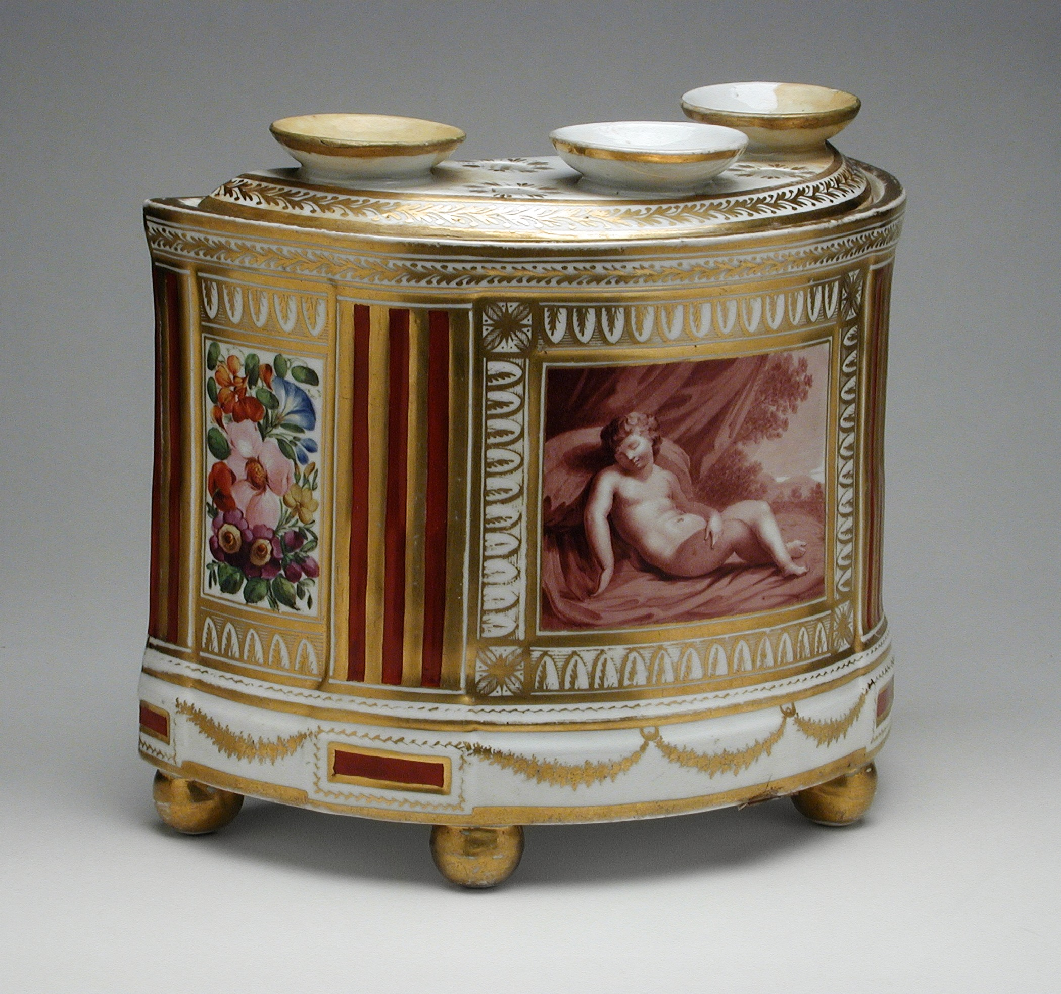 England, 1802 Furnishings; Cookware Porcelain, gilding Gift of Mr. Walter T. Wells (56.30.26a-b) Decorative Arts and Design